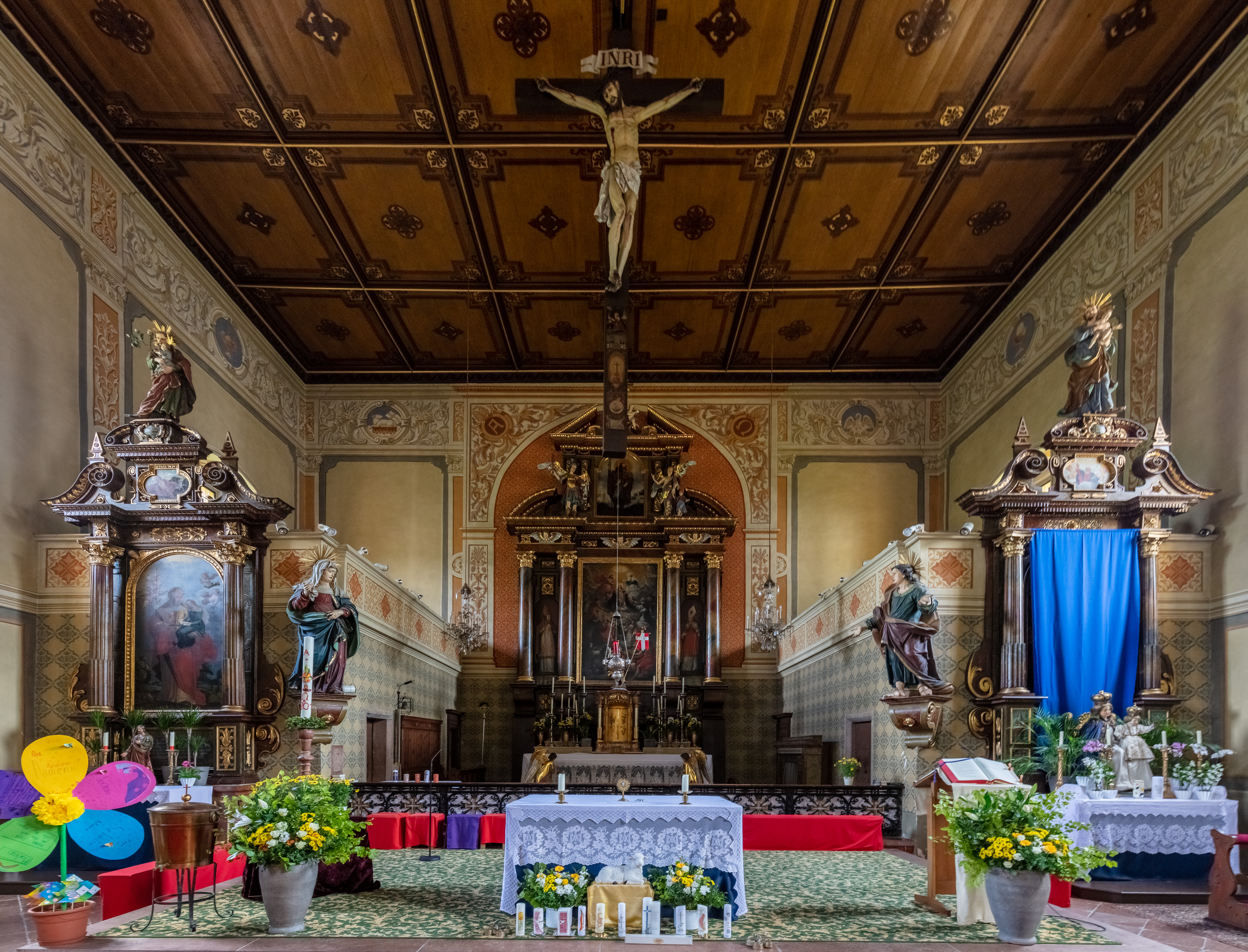 St James church, Werfen, Austria